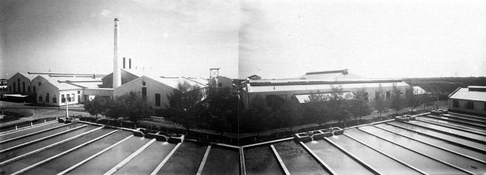 The 'Soekamandi' tapioca and sisal factories and water treatment of the 'Pamanoekan- & Tjiasemlanden' plantation